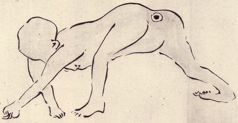 Noppera-bō (のっぺらぼう, An apparition in the shape of a man having an eye in the place of his anus) from the Buson Youkai Emaki (蕪村妖怪絵巻)